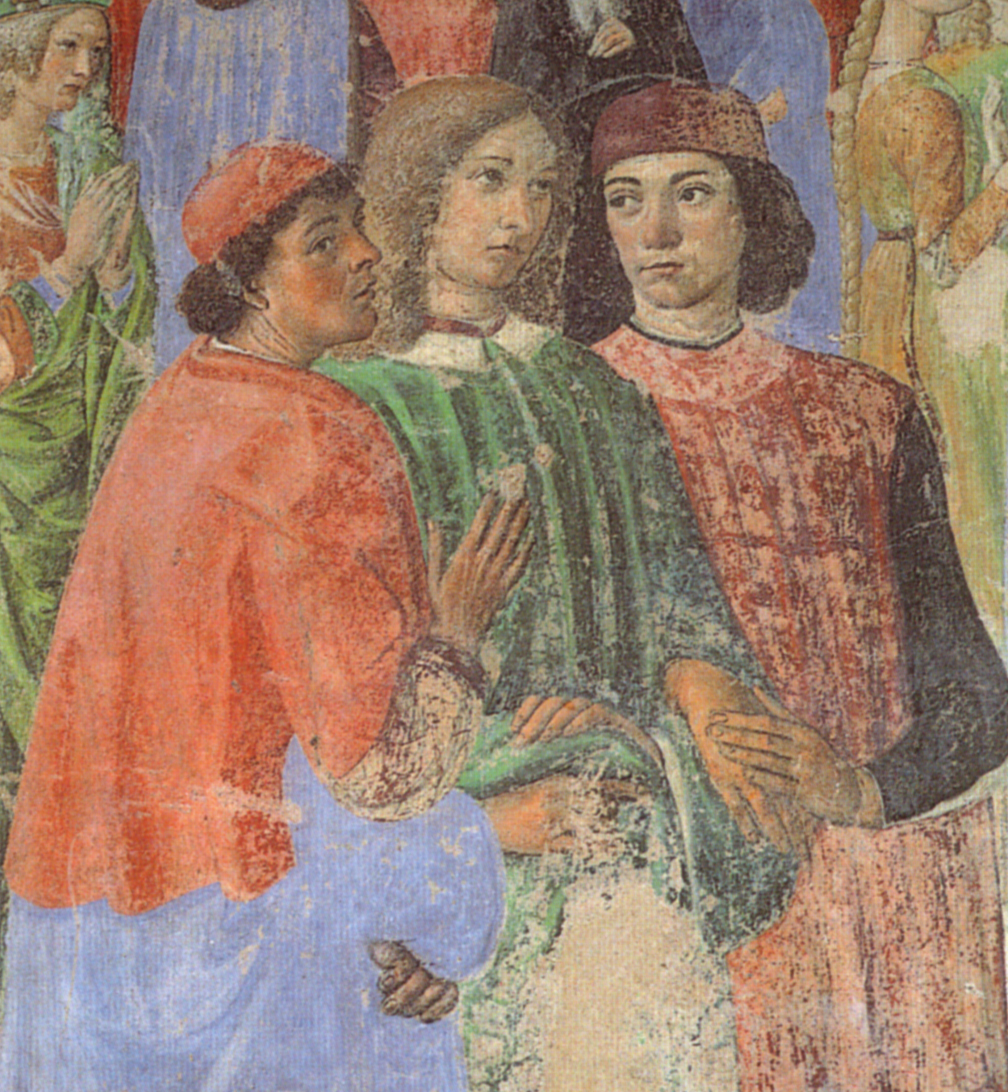 detail of three members of the Platonic Academy of the Medici: left possibly the sculptor Alberti, centre Pico della Mirandola, right Agnolo Poliziano. Although the figure to the left is sometimes cited as Marsilio Ficino, he was at this time a mature man with dead-straight, snow white hair. see file:File:Zaccaria in the temple by dghirlandaio.jpg